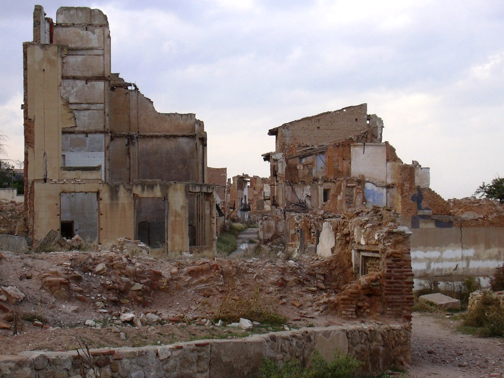 Belchite - Town in Aragon, Spain - Destroyed during the Spanish Civil War (1937), was not rebuild and stayed as monument